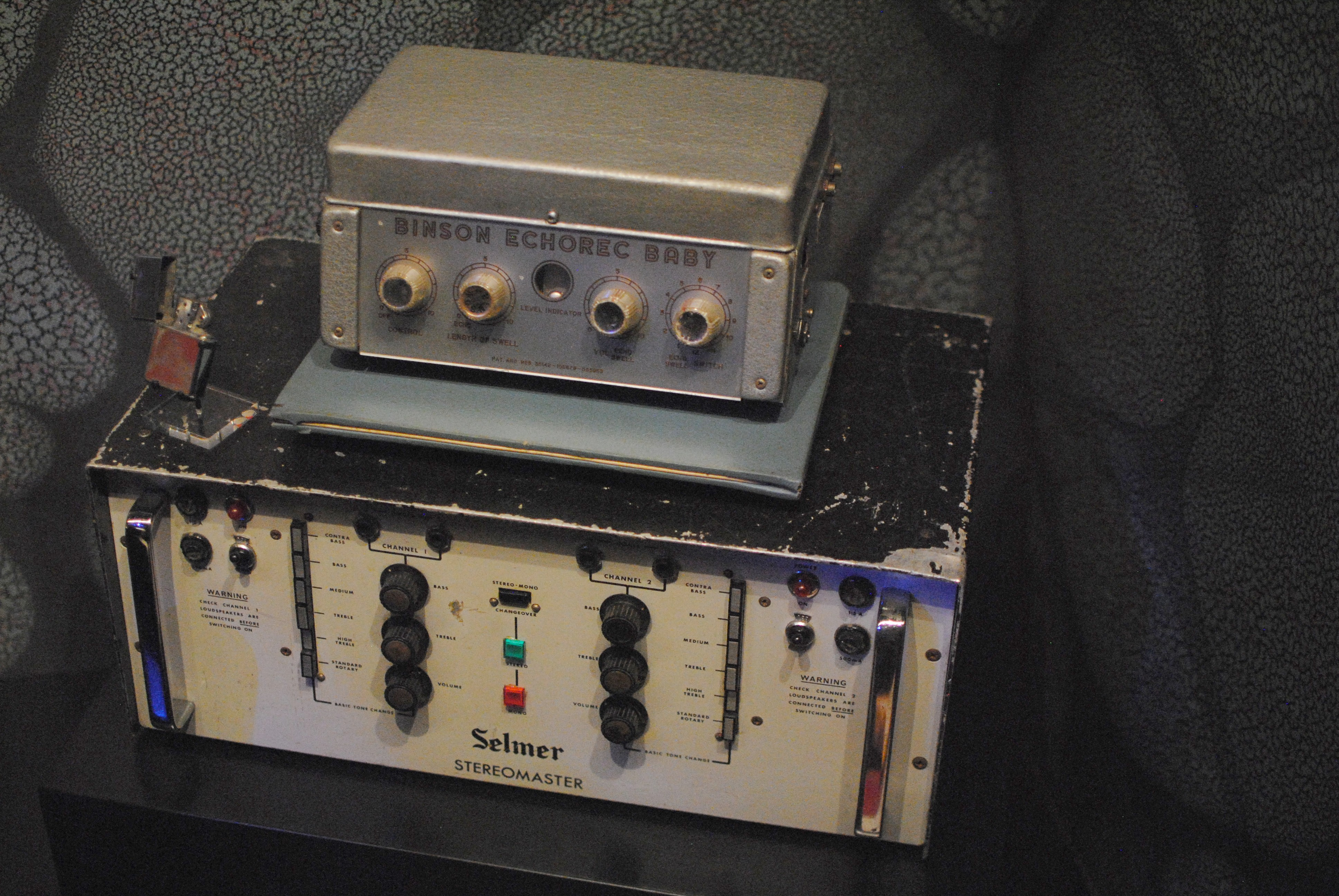 displayed at the Pink Floyd: Their Mortal Remains exhibition at the Victoria and Albert Museum. Binson Echorec Baby (1960s, compact version of magnetic disk echo, Echorec) Selmer Stereomaster (1960s, 2×50 W guitar amp head)